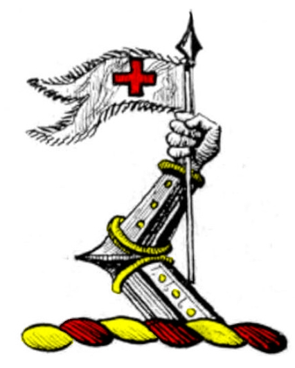 A variant of the Streatfeild family crest